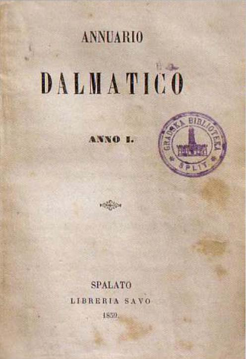 Annuario Dalmatico used on Vid Morpurgo page